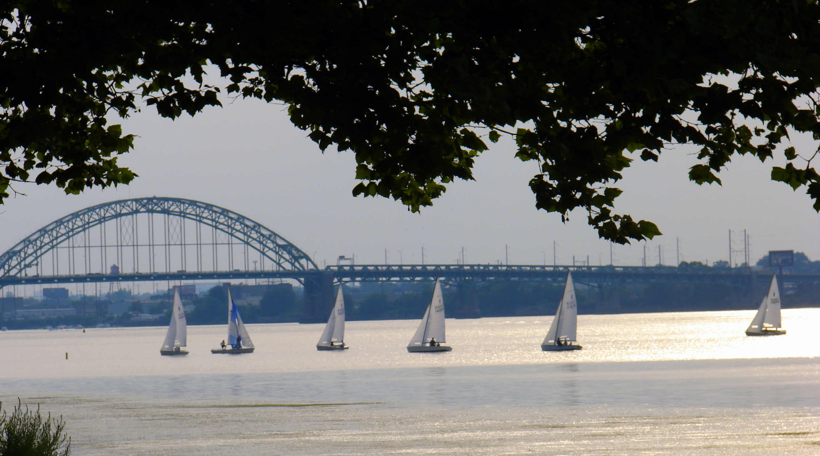 Tacony-Palmyra bridge, taken from the Philadelphia side